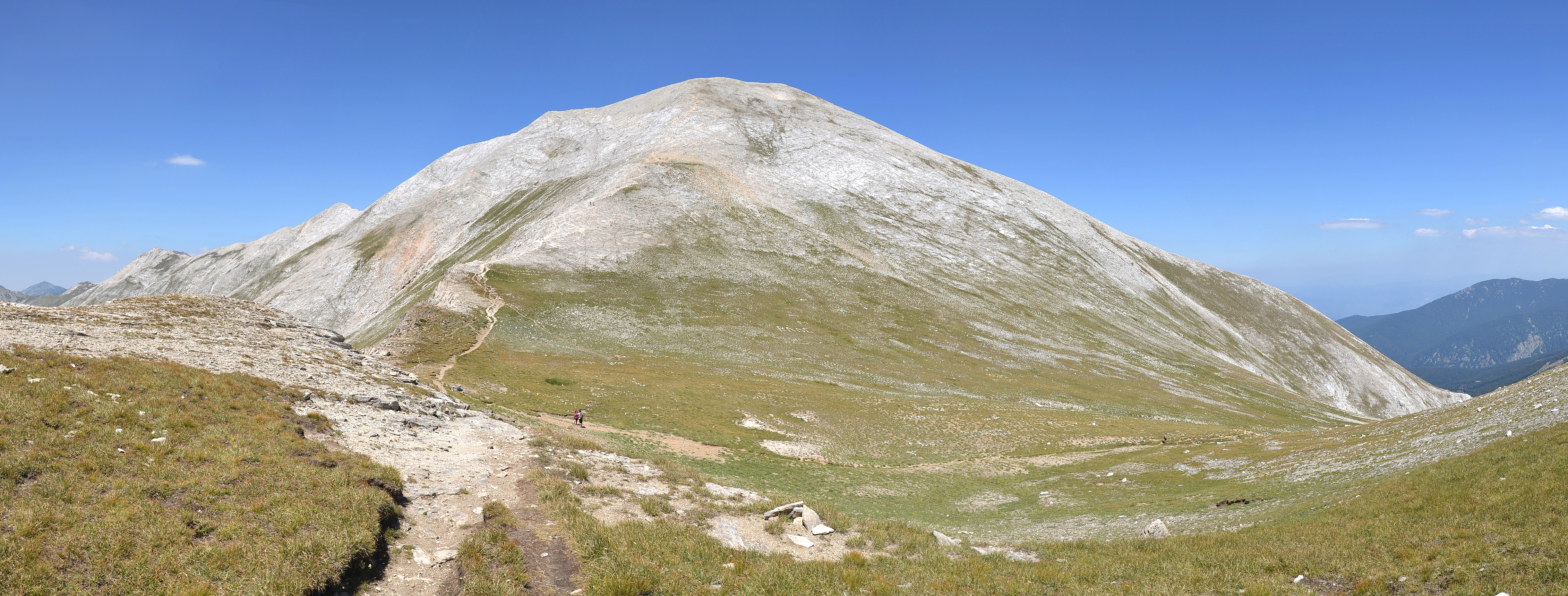 Kutelo (Кутело), Pirin, Bulgaria - view from Premkata pass